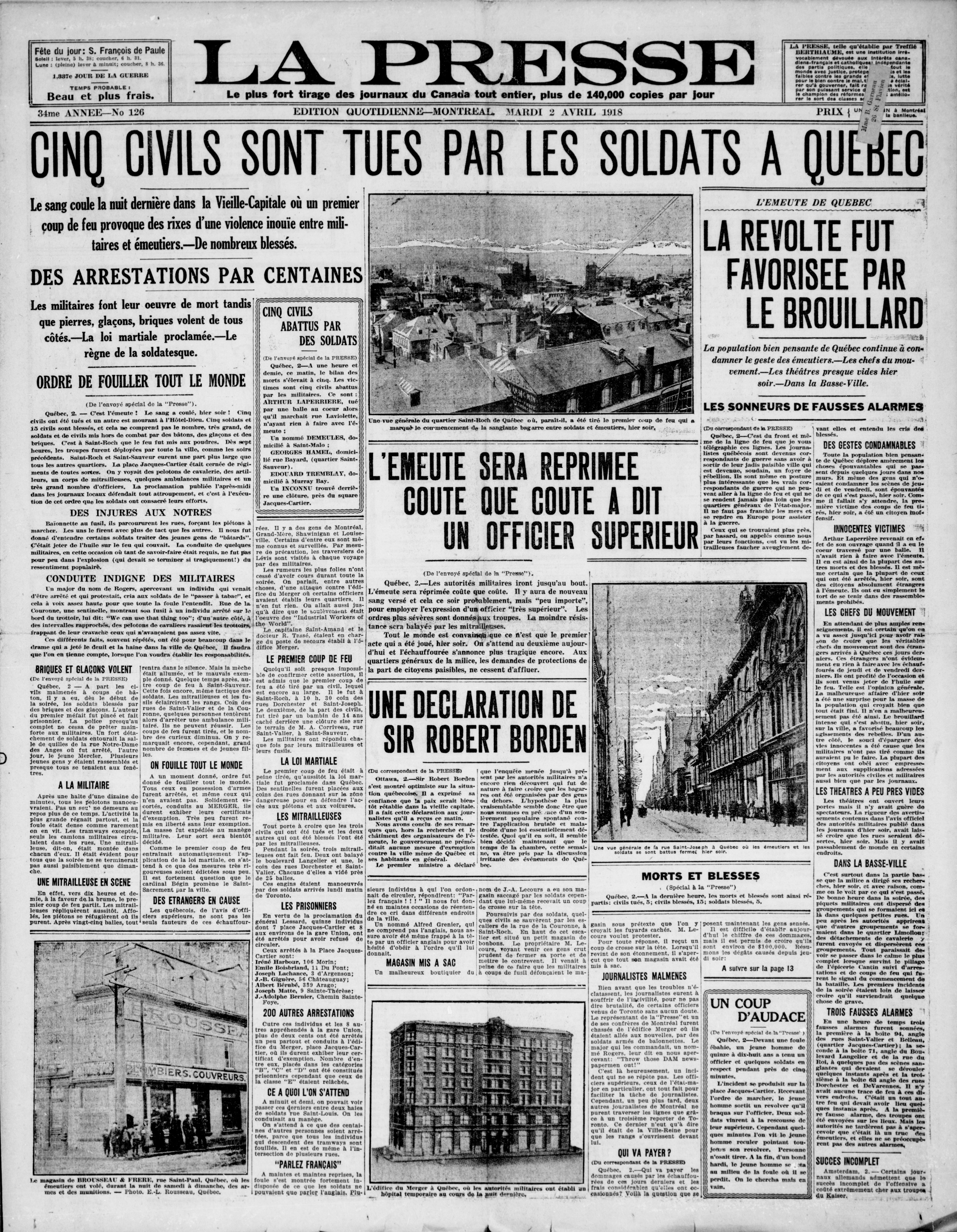 Front page of Montreal's newspaper La Presse, April 2, 1918, about the Quebec City Conscription Riots (28 March – 1 April 1918)